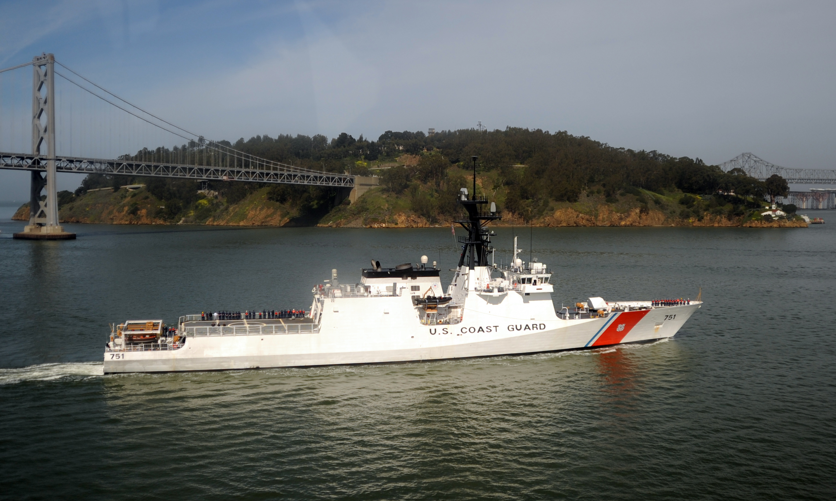 SAN FRANCISCO - The Coast Guard Cutter Waesche transits through the San Francisco Bay for the first time en route to its homeport of Alameda, Calif., Feb. 28, 2010. The Waesche is the second Legend-class cutter and is scheduled to be commissioned in May.